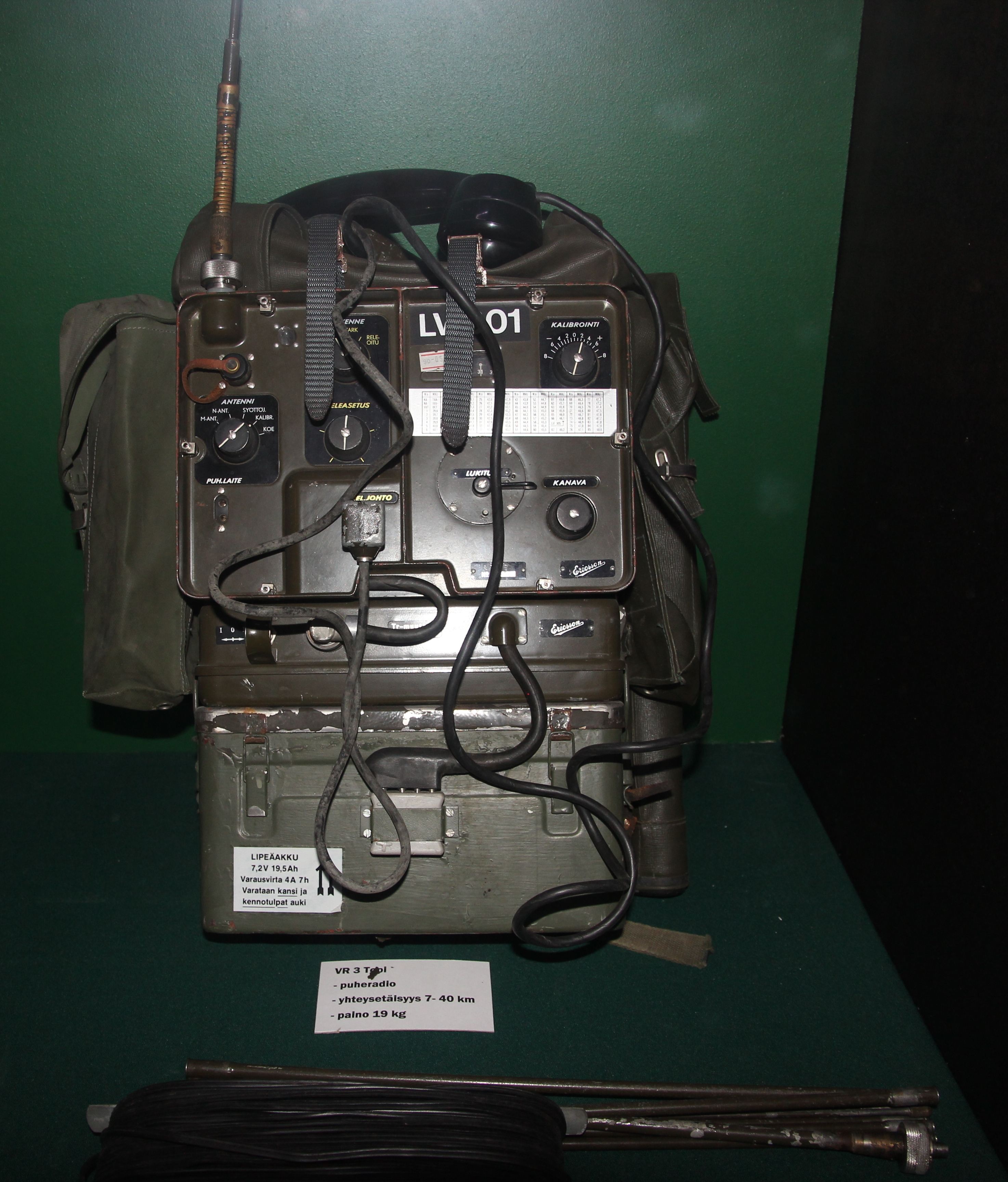 Finnish army brigade radio LV 301 VR-3A "Topi". Photographed in Mikkeli infantry museum.